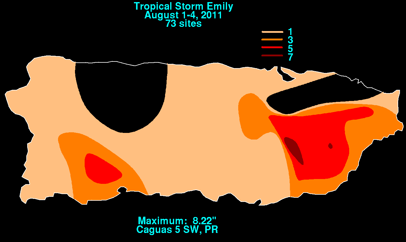 Storm total rainfall map of Tropical Storm Emily during August 2011.